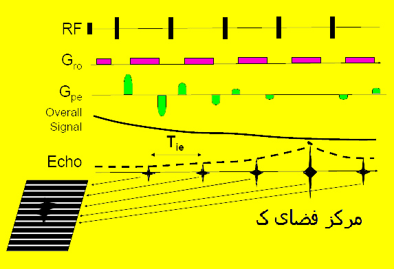 Fast Spin Echo pulse sequence in MRI, with center of K space designated in Persian.